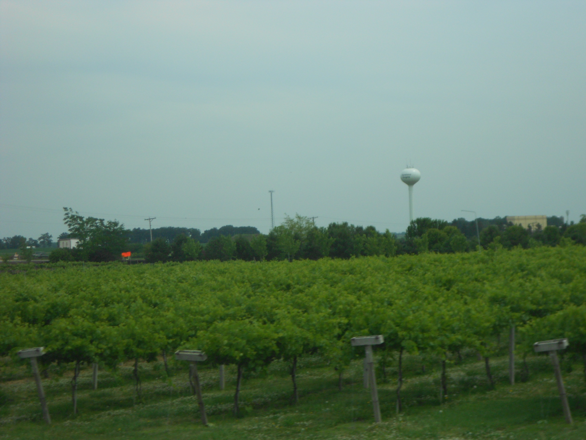 Aquaviva Winery, Maple Park, Illinois